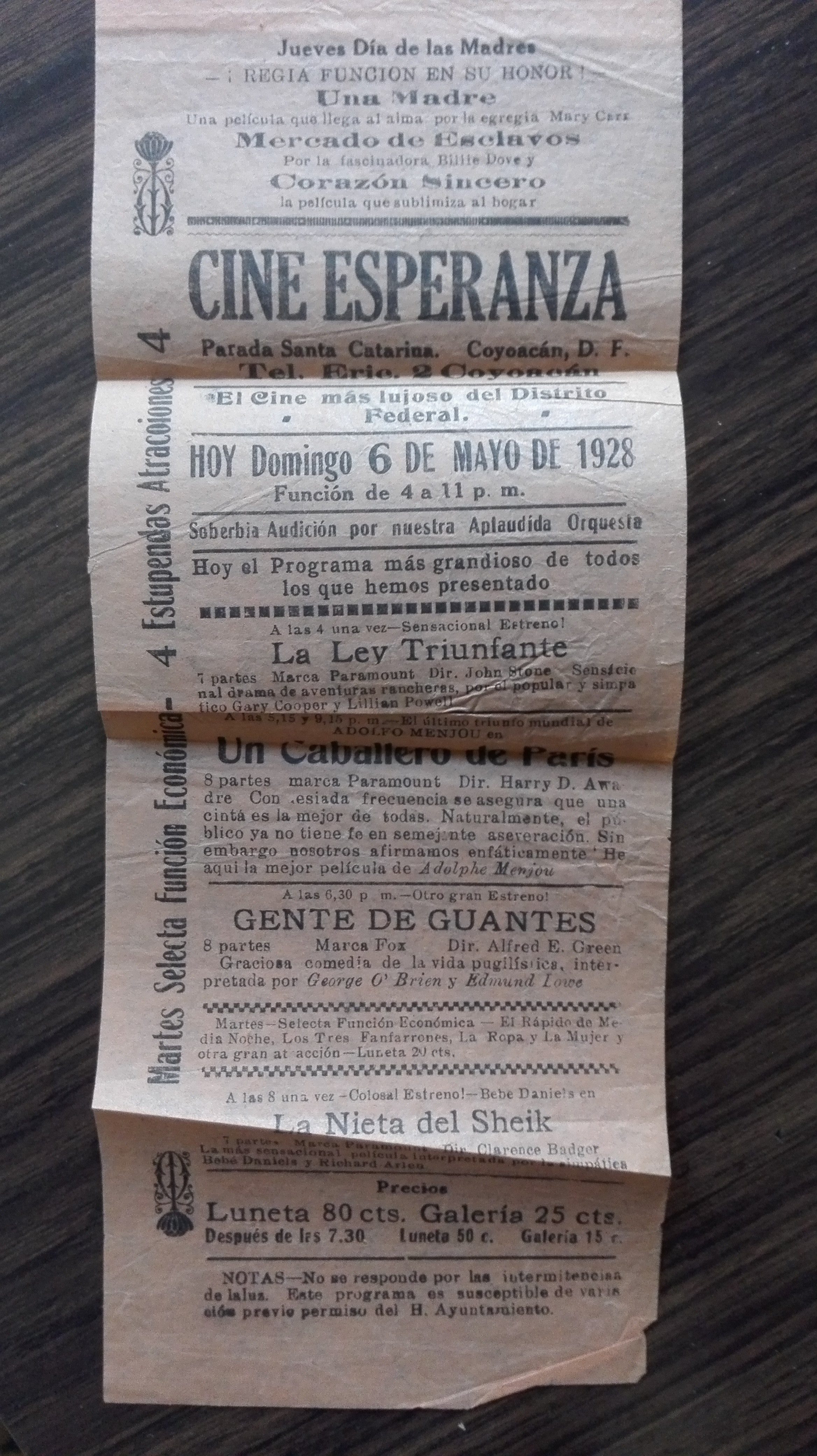 Announcement for the cinema show (4-11 pm) for the Mother's Day as well as for Sunday, May 6, 1928, at Esperanza movie theater (Santa Catarina stop, Coyoacán, Mexico City).